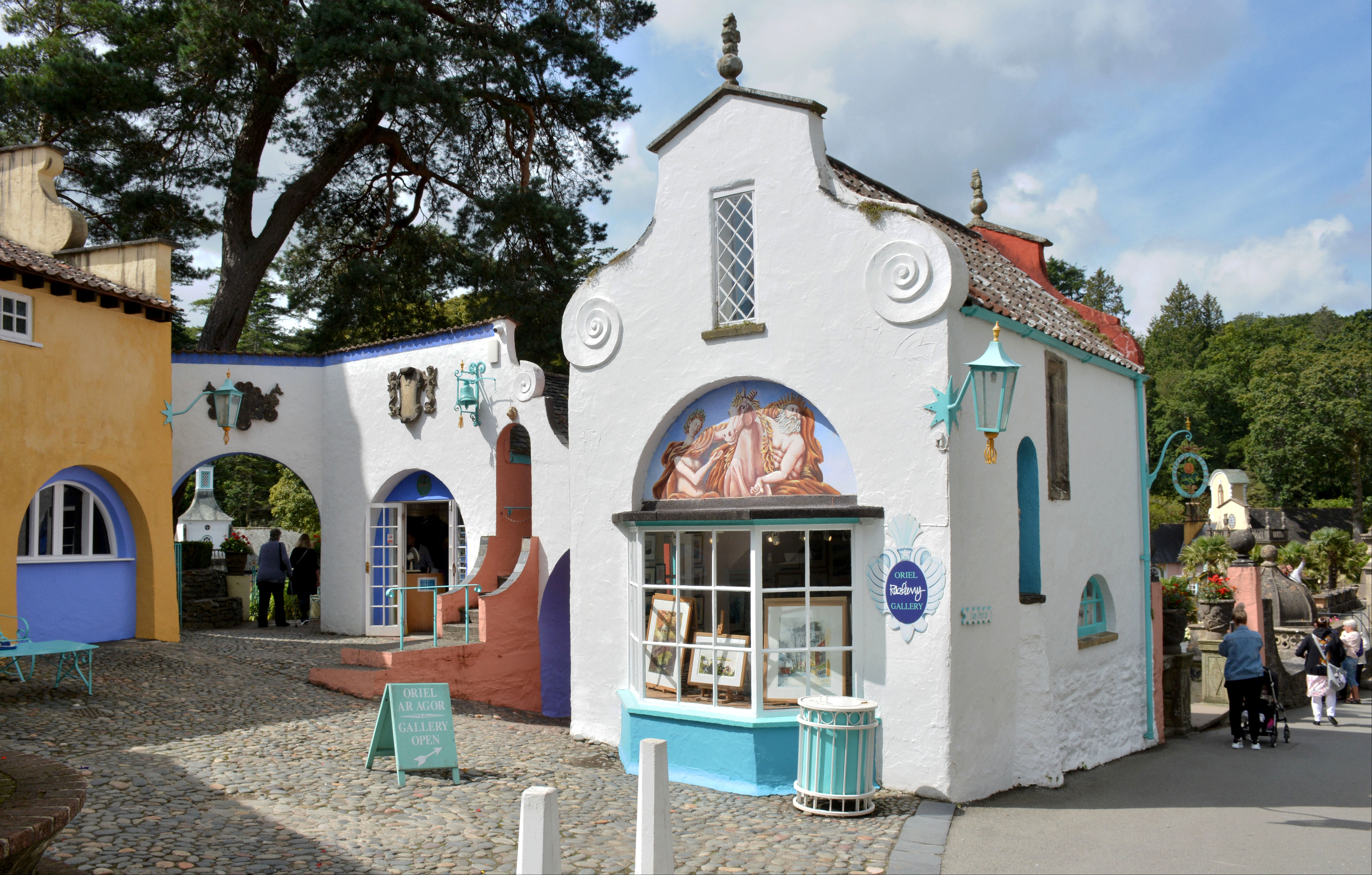 This hotel and tourist attraction in north Wales was catapulted into fame by the 1960's cult TV series "The prisoner" starring Patrick McGoohan. Seen here is some of the first things you see on entering. The building that was used as the home of "Number 6" is just to the left of centre - it's now a shop. From Wikipedia: The village of Portmeirion has been a source of inspiration for writers and television producers. Noël Coward wrote Blithe Spirit while staying there. George Bernard Shaw and H. G. Wells were also early visitors. In 1956 the village was visited by architect Frank Lloyd Wright, and other famous visitors have included Gregory Peck, Ingrid Bergman and Paul McCartney. The village has many connections to the Beatles too. Their manager, Brian Epstein was a frequent visitor and George Harrison spent his 50th birthday in the village in 1993. It was while Harrison was in Portmeirion that he filmed interviews for The Beatles Anthology documentary.